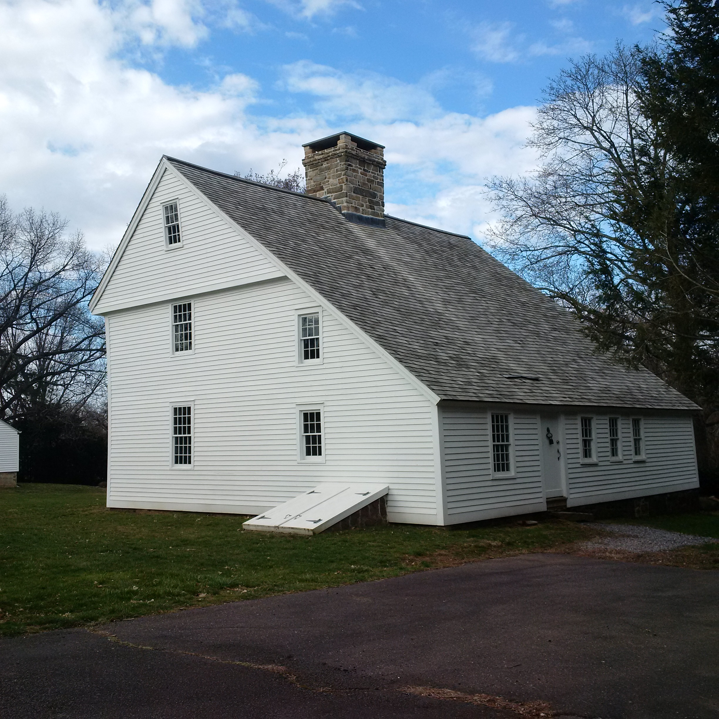 Nehemiah Royce House rear Wallingford, CT spring 2016.